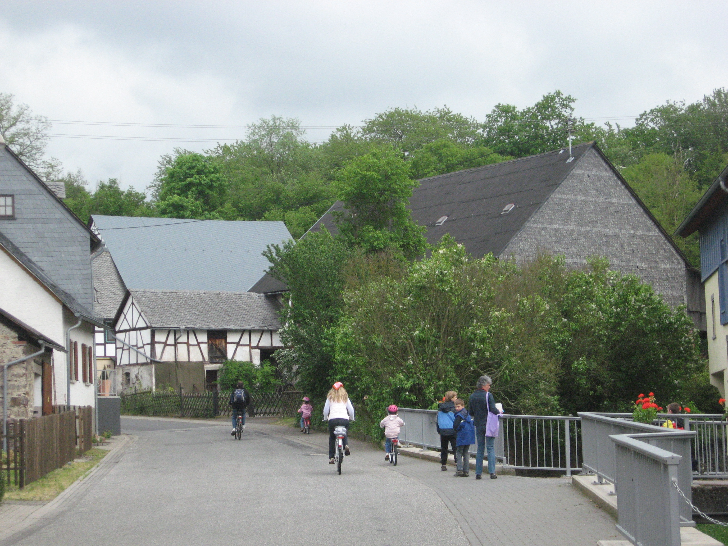 Cycling way Schinderhannes-Soonwald-Radweg in Mengerschied in Germany